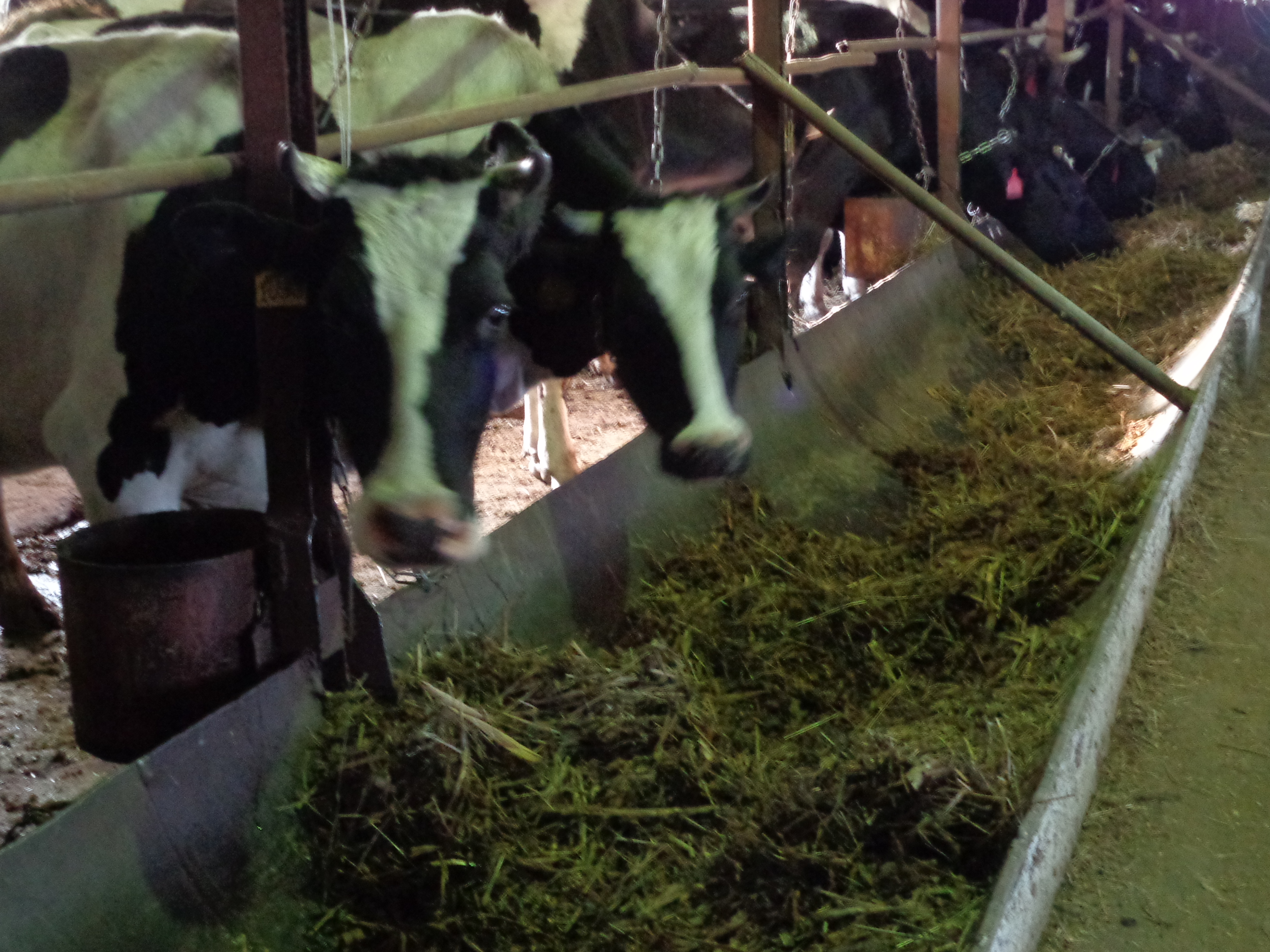 Feeding silage and green mass